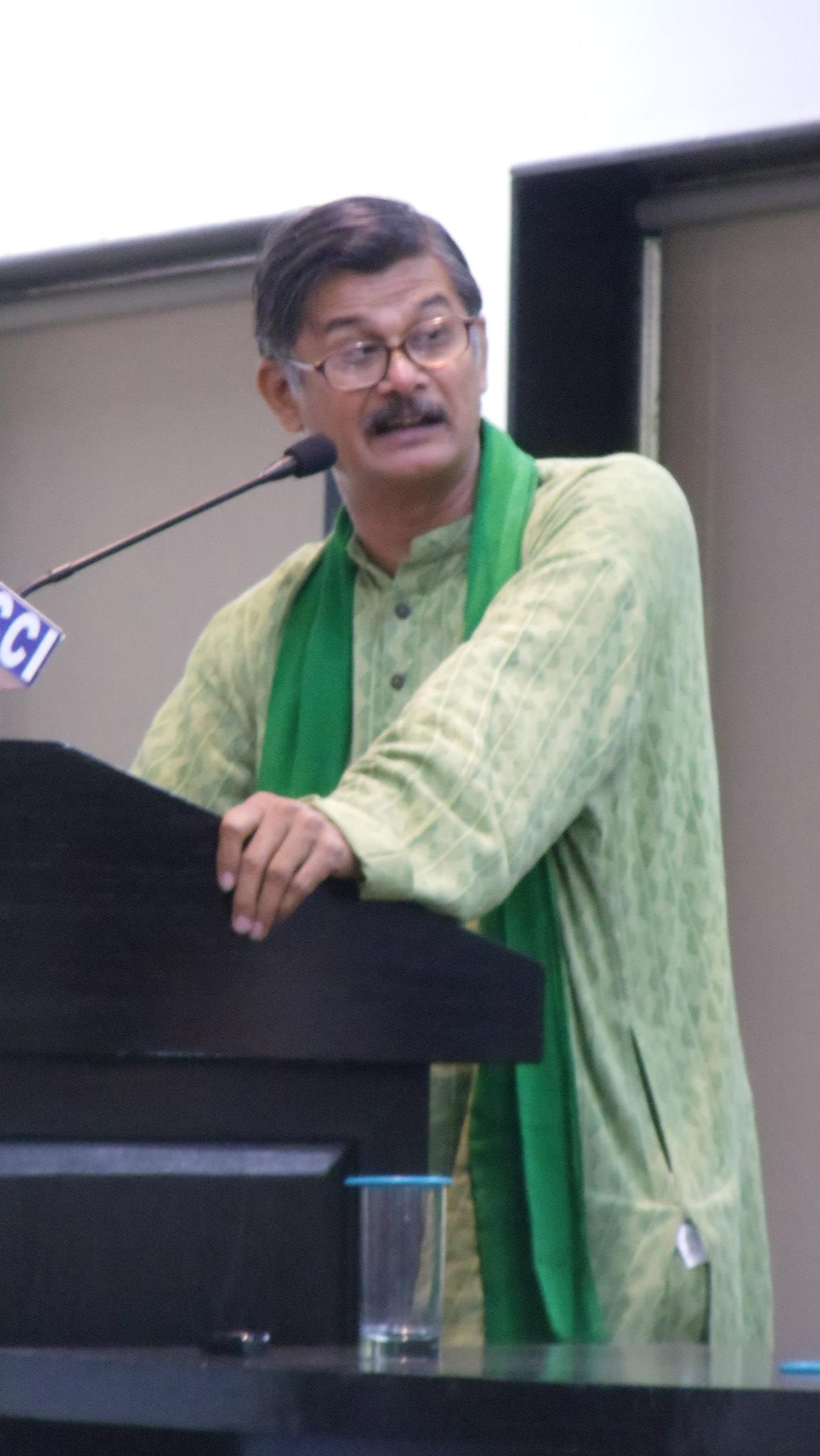 Dr. Sunilam in National People's Hearing on fabricated cases, Constitution Club, New Delhi September 2012